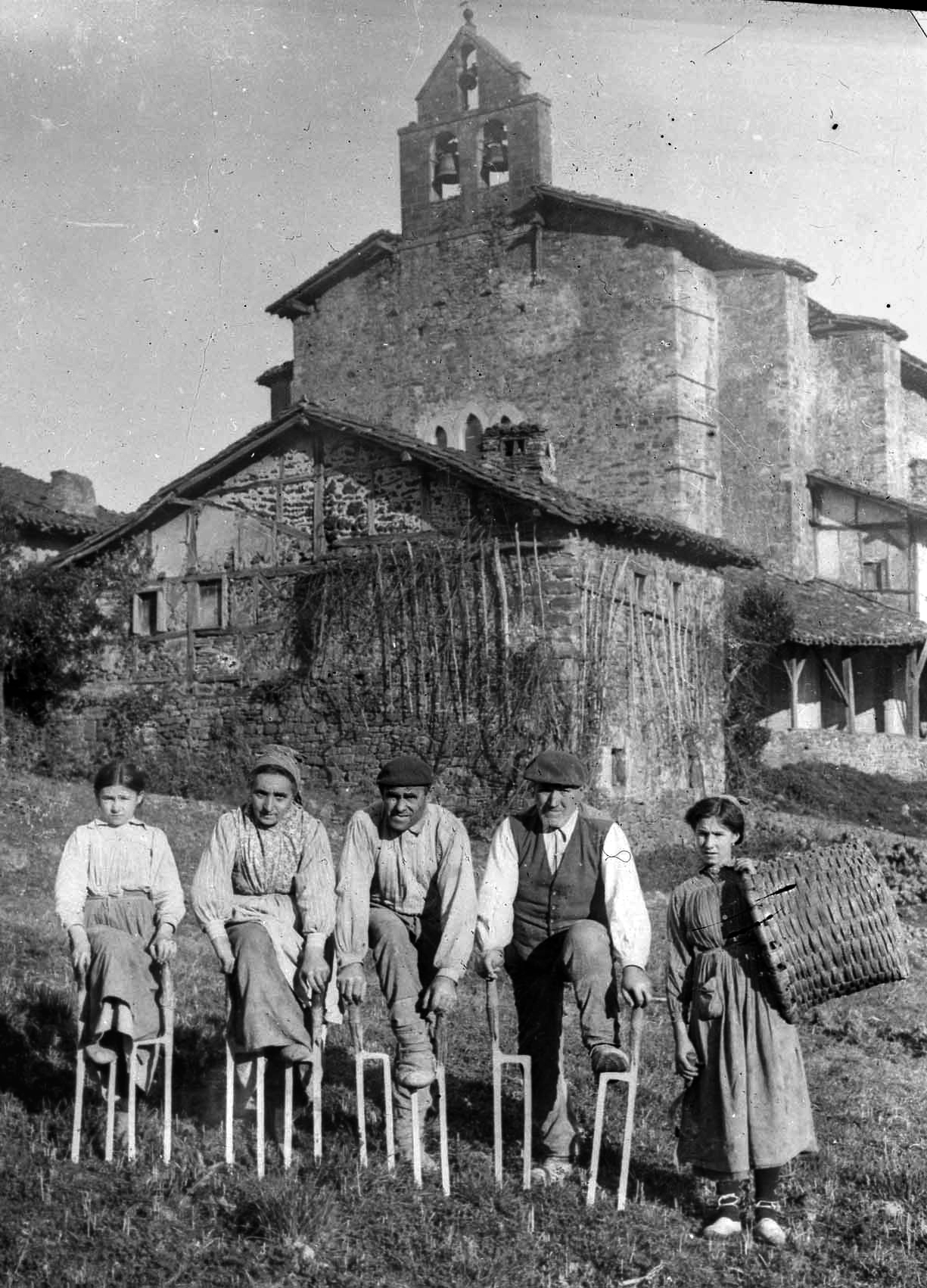 Farmers in Orozko (Biscay, Basque Country, Spain) in the 20th century